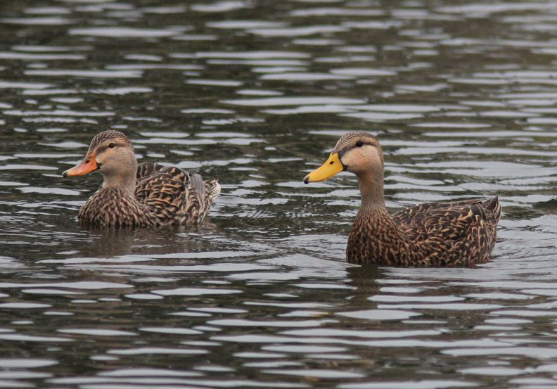 Pair of mottled ducks (Anas fulvigula). Female has the orange bill, male has the yellow bill. Taken in December 2012 in Sarasota, FL.